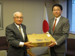 Naoyuki Toyotoshi, Ambassador to Japan, met Ikuo Yamahana, Parliamentary Secretary for Foreign Affairs, and expressed his condolences to the victims of Tōhoku earthquake and tsunami at the Headquarters of the Ministry of Foreign Affairs in Chiyoda Ward, Tōkyō Metropolis on April 19, 2011.